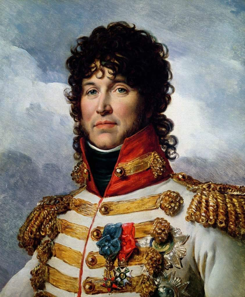 Fragment of portrait of Joachim Murat, Prince d’Empire, Grand Duke of Clèves and of Berg, King of Naples under the name of Napoleon in 1808 (1767-1815), Marshal of France in 1804